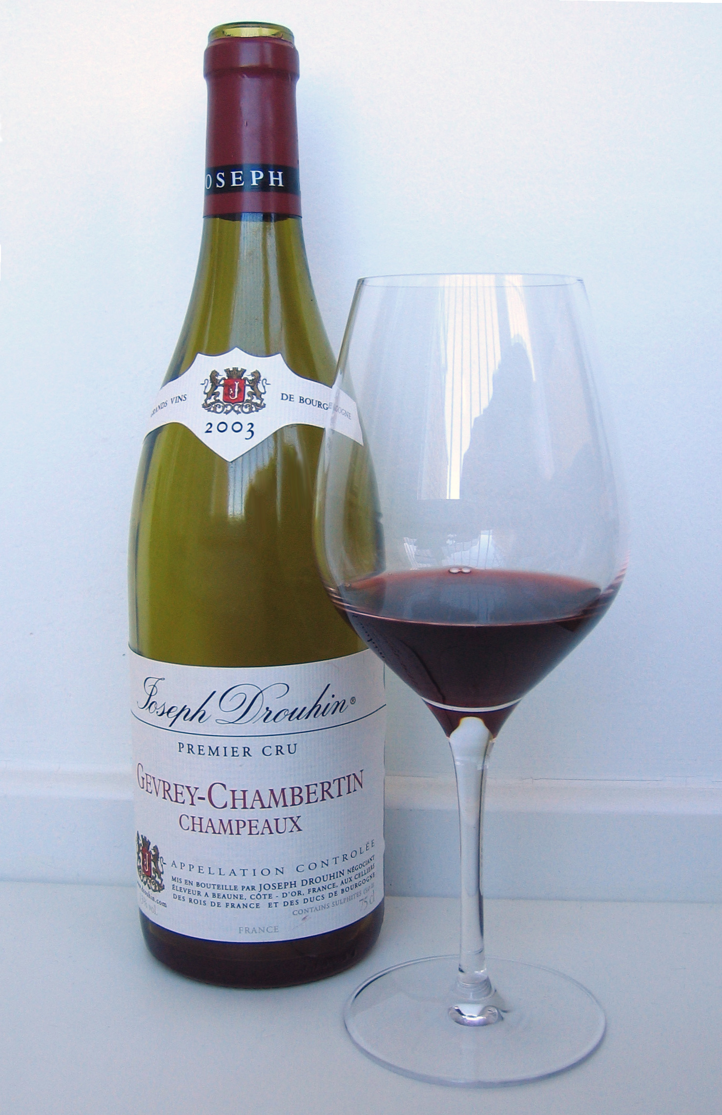 Gevrey-Chambertin Premier Cru "Champans" 2003, a red Burgundy wine, from Joseph Drouhin